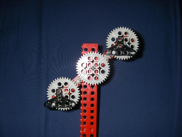 Uploaded for use on the page User:RealGrouchy/FalkirkGearing. Part of the series FalkirkLego1.jpg to FalkirkLego6.jpg, and FalkirkRotate01.jpg to FalkirkRotate12.jpg. Used to illustrate how the two caissons in the Falkirk wheel remain level while the mechanism rotates. Photo taken and uploaded by User:RealGrouchy, and released into the public domain.